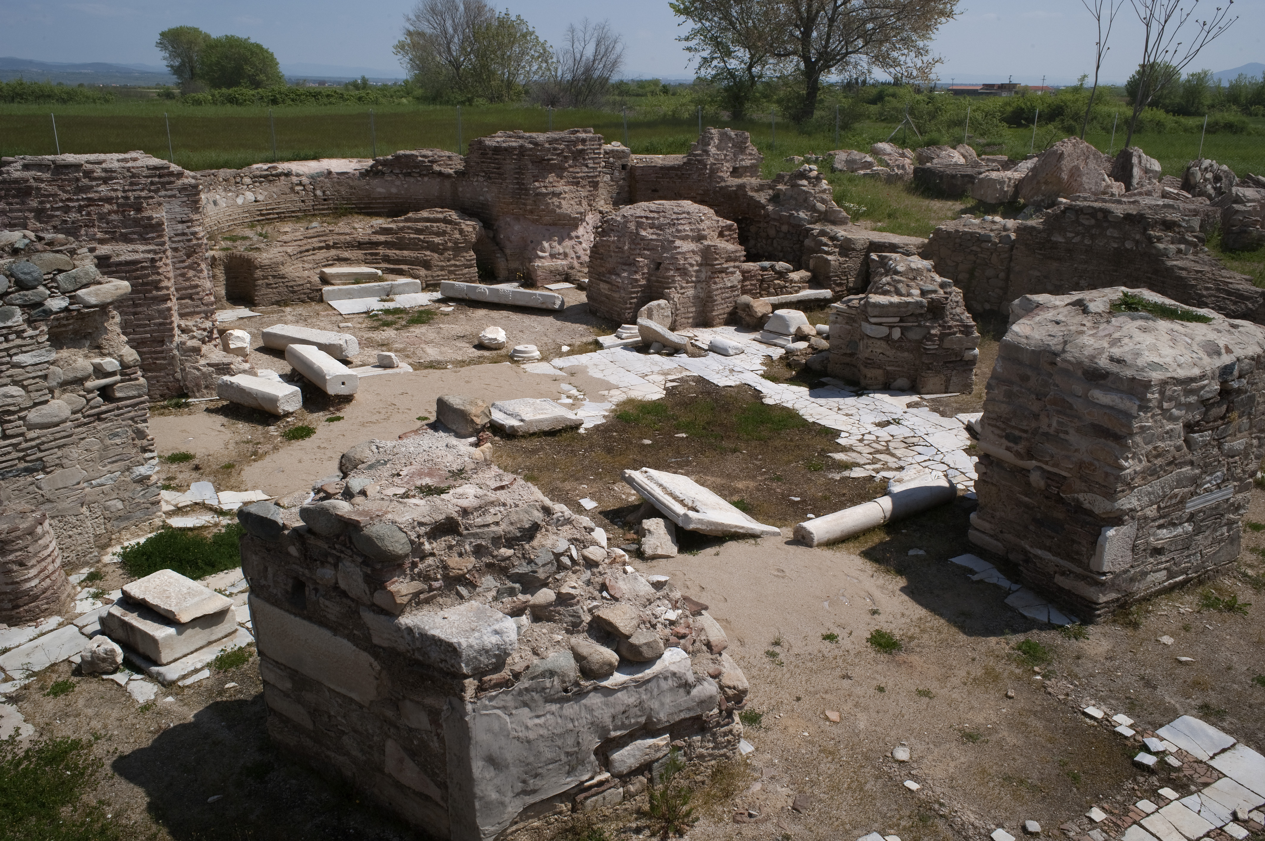 Maximianoupolis - Mosynopolis: Α Central plan church, Rhodope, Thrace, Greece.